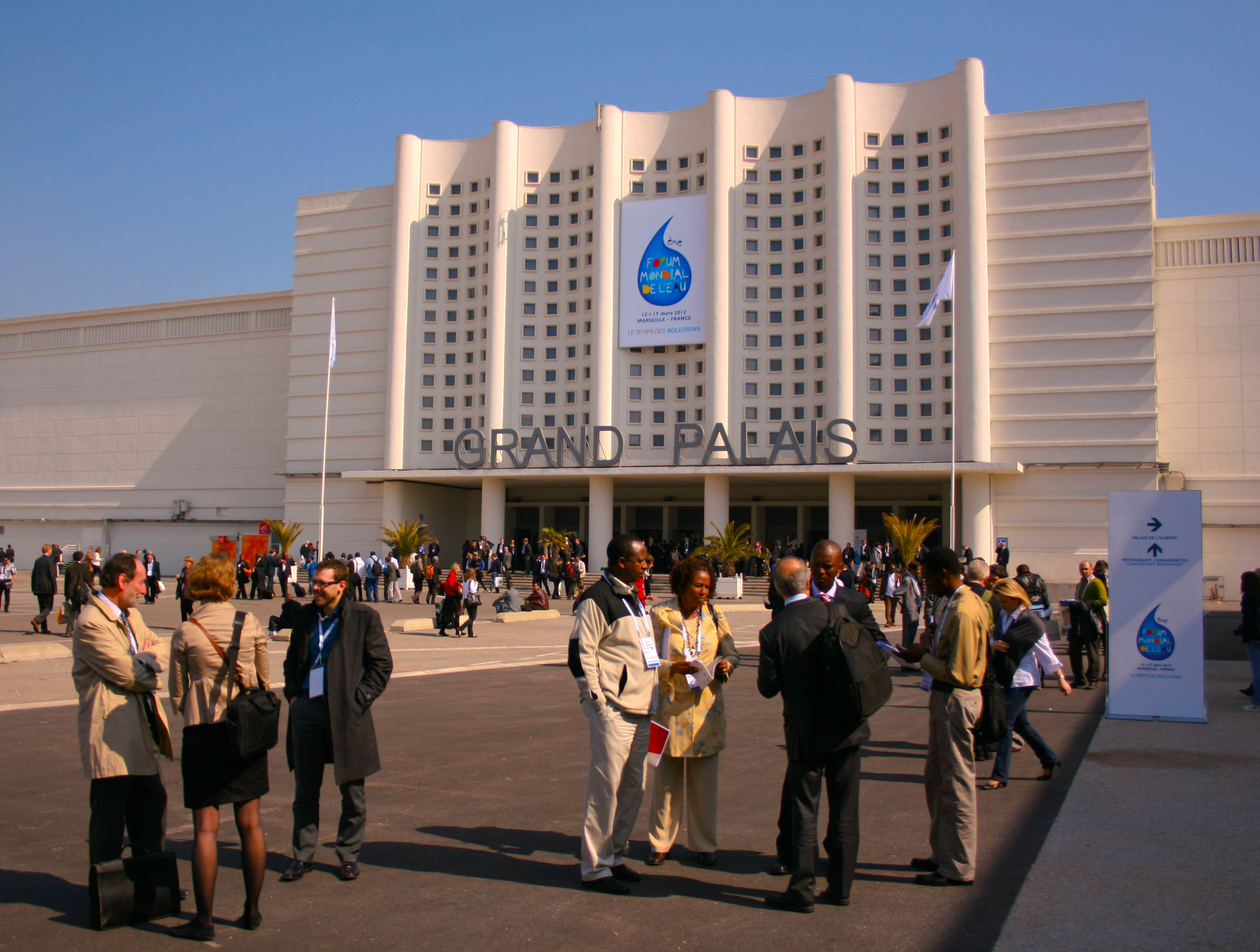 World Water Forum 6